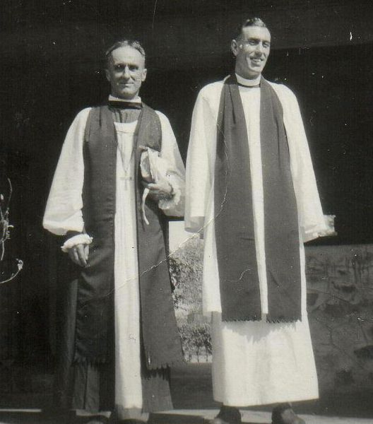 1948 photo of Oliver Claude Allison (1908-1989), as assistant bishop of Sudan on the right, with Bishop Alfred Morris Gelsthorpe (1892-1968) on the left. All possible attempts have been made online and in libraries to ascertain authorship and copyrights to this image, and none have been found.